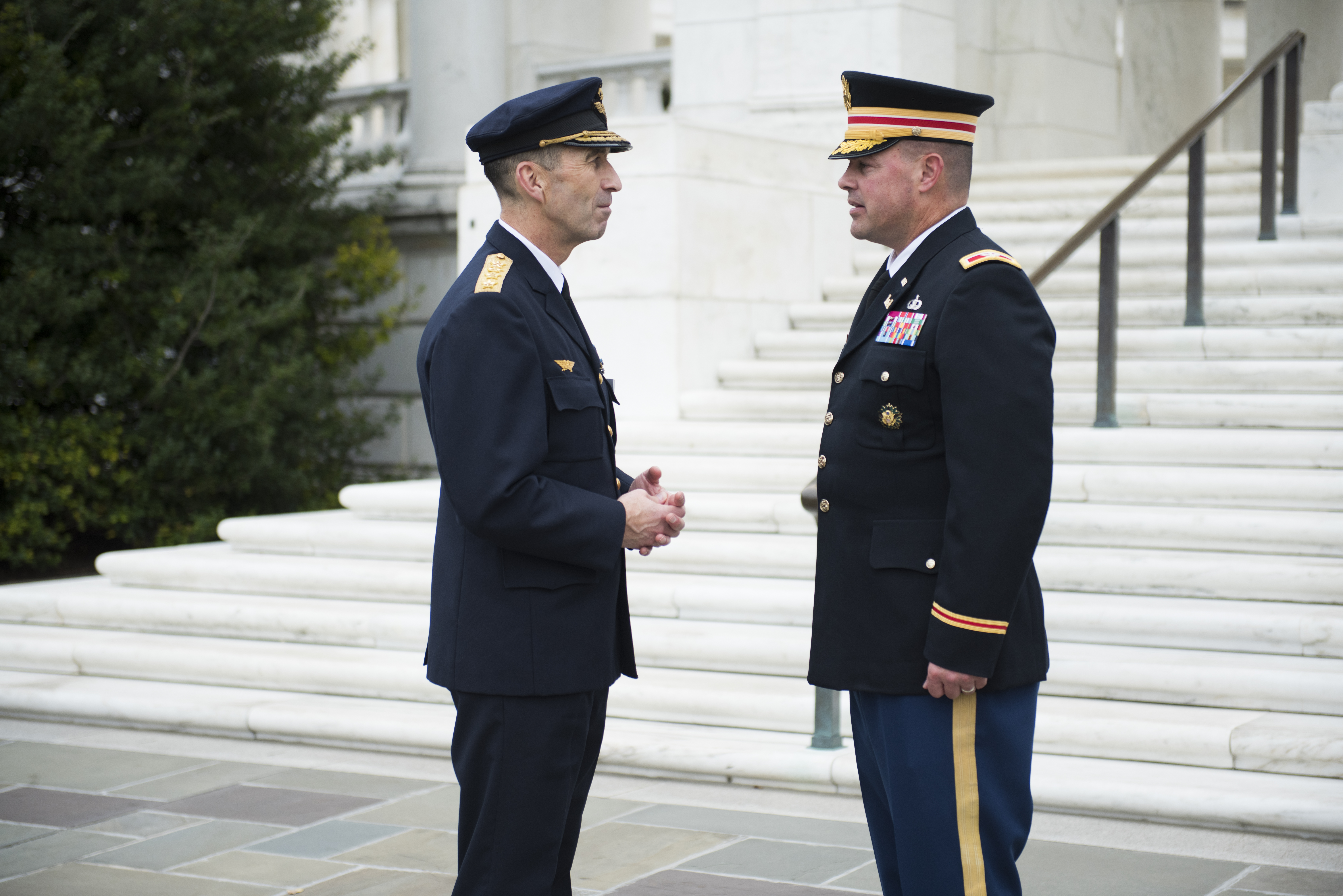 Supreme Commander of Swedish Armed Forces Gen. Micael Bydén, talks with Col. Jerry Farnsworth, chief of staff, Army National Military Cemeteries and Arlington National Cemetery, outside of the Memorial Amphitheater at conducts at Arlington National Cemetery, Arlington, Virginia, Oct. 23, 2017. Bydén also conducted a Public Wreath-Laying Ceremony at the Tomb of the Unknown Soldier and toured the Memorial Amphitheater Display Room. (U.S. Army photo by Elizabeth Fraser / Arlington National Cemetery / released)